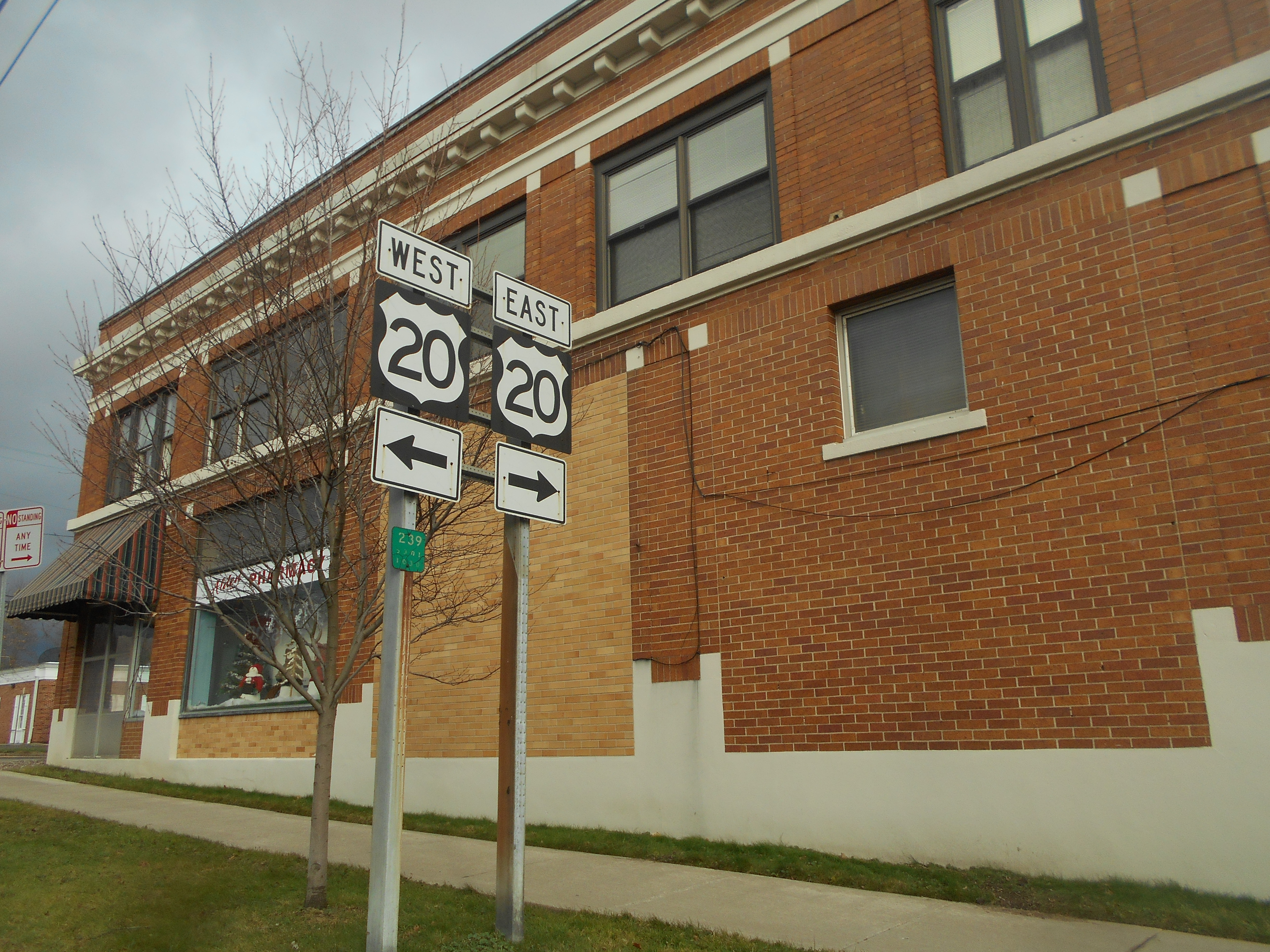 New York State Route 239 signage in Alden, New York.